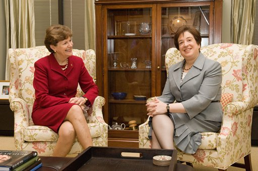 Senator Jeanne Shaheen (D-NH) meeting with Supreme Court nominee Elena Kagan.